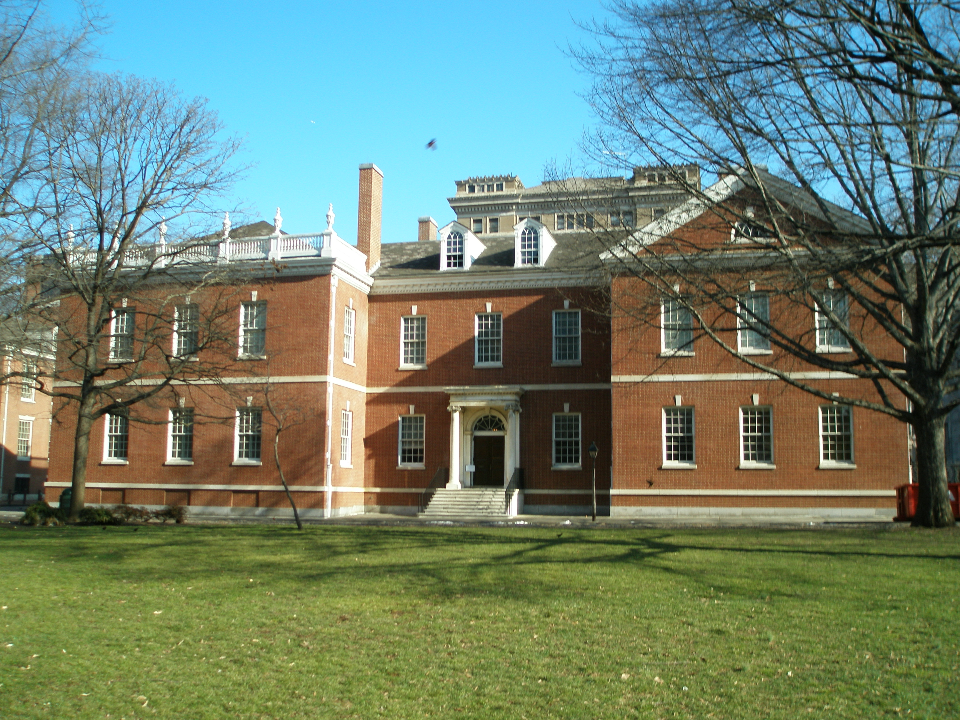 Library Hall, American Philosophical Society, south façade.